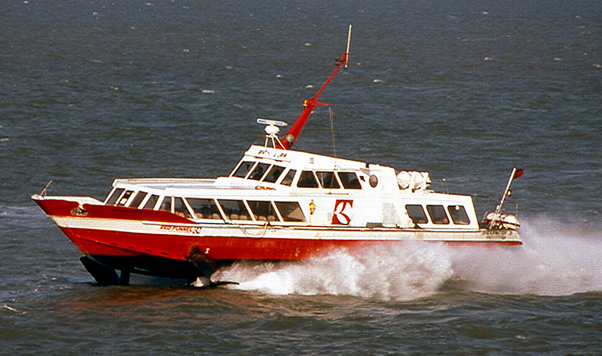 Shearwater 3 at speed on Southampton Water. Scanned from a Kodachrome 35mm slide.